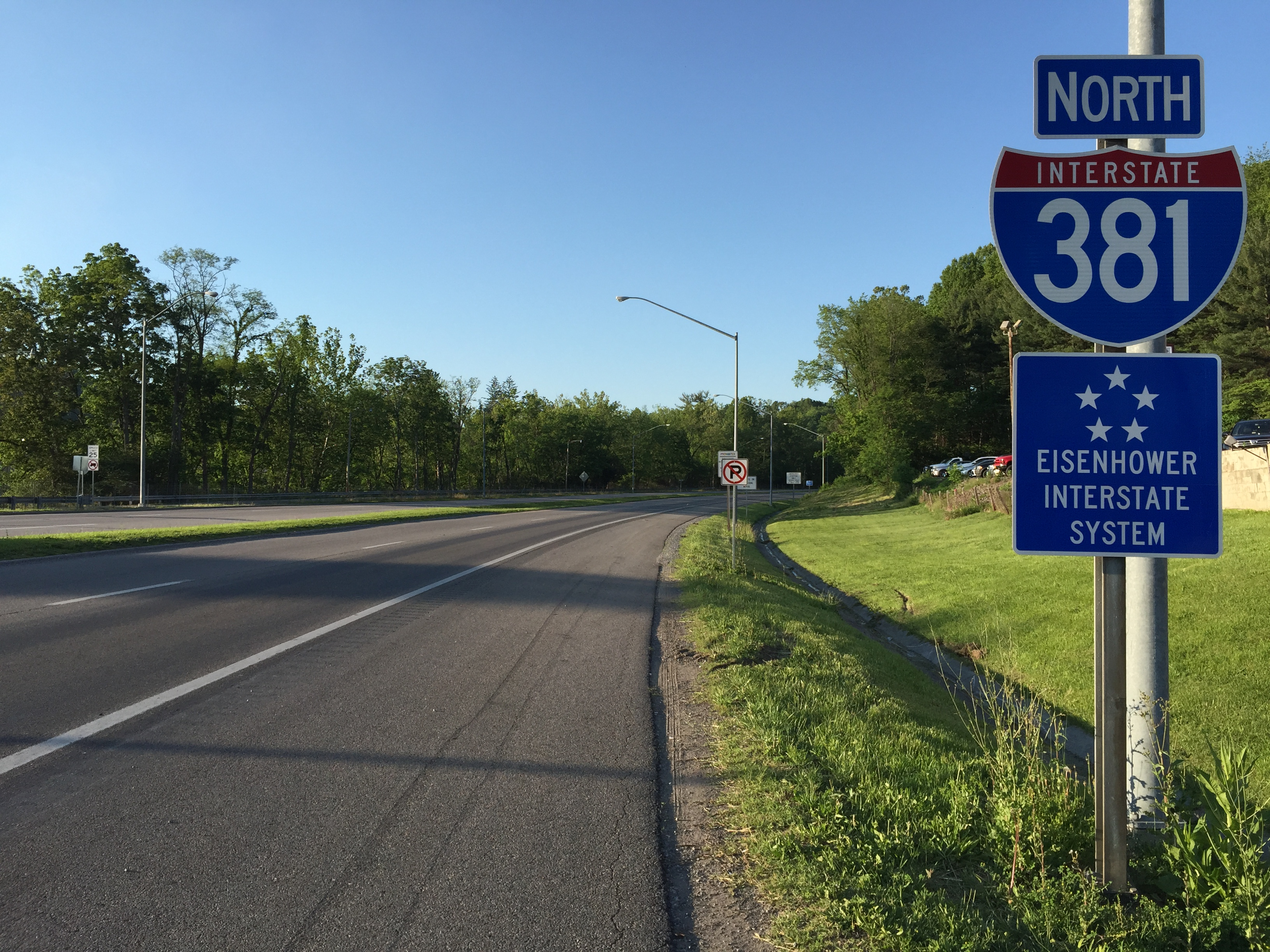 View north at the south end of Interstate 381 at Church Street in Bristol, Virginia